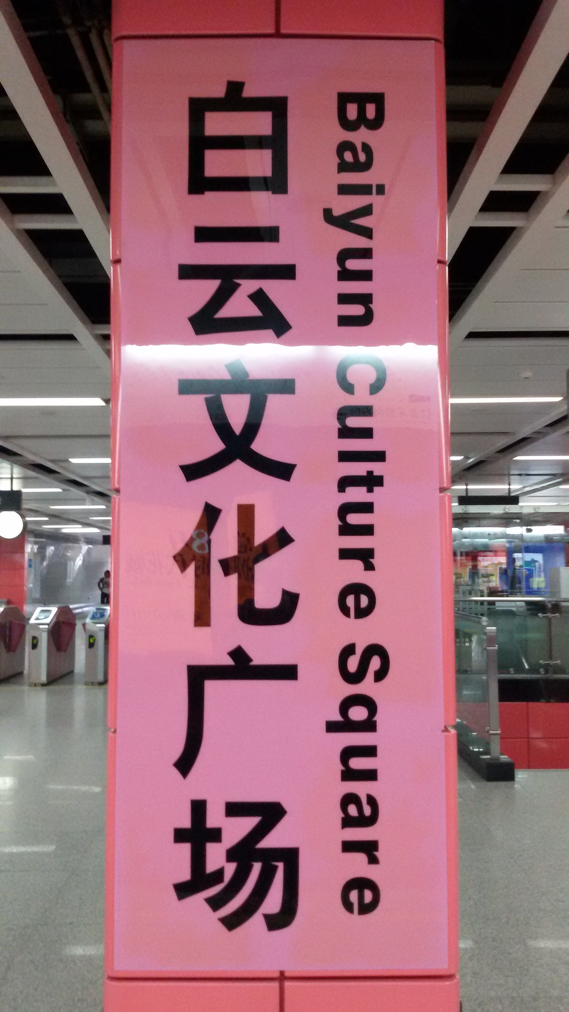 WORD on PILLAR for Baiyun Culture Square Station in Guangzhou Metro 粵語: 廣州地鐵，白雲文化廣場站嘅柱上啲字。